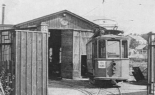 ASEA/AEG tram no. 10 as a shunter work car in Turku, Finland